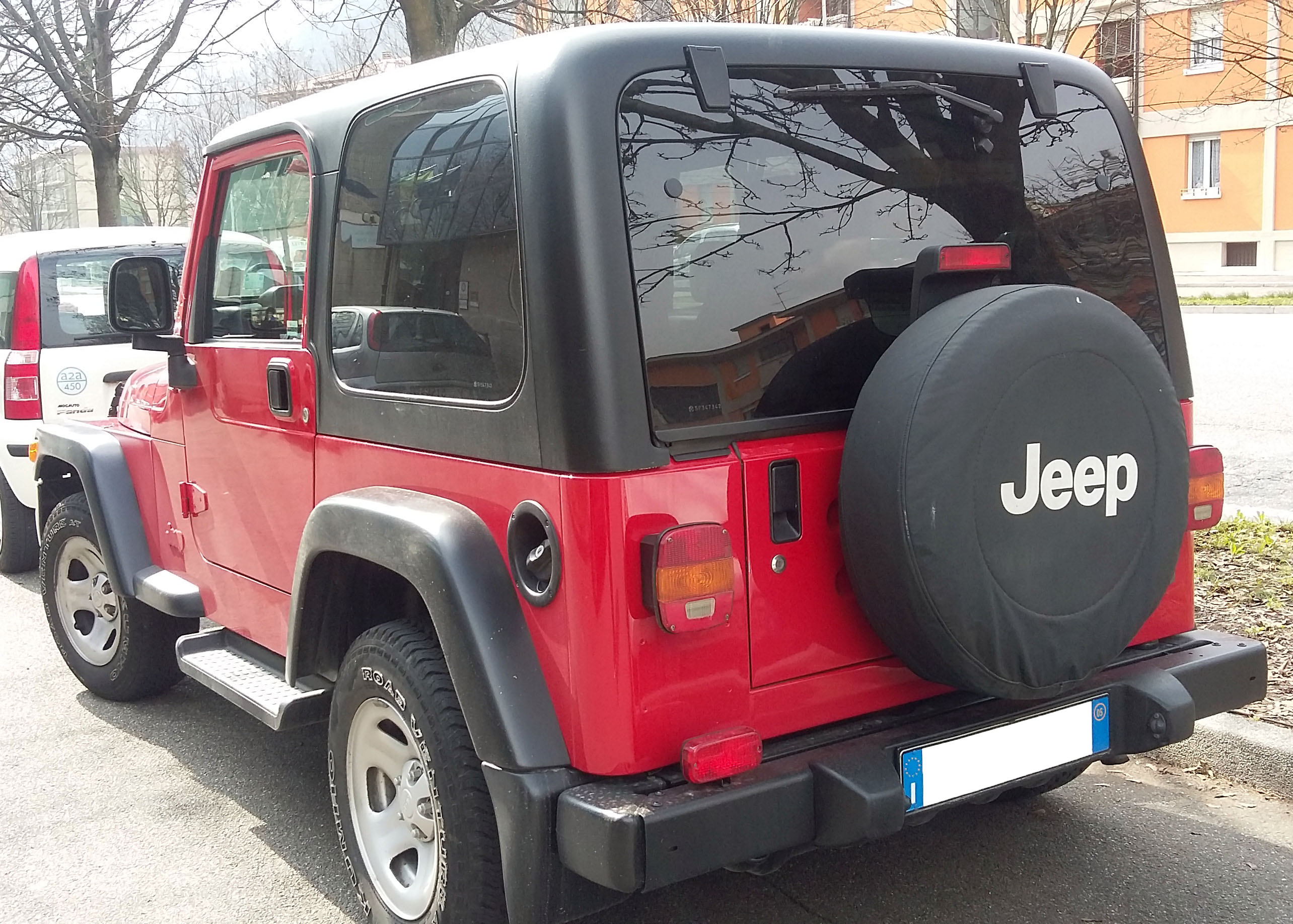 1996-2006 Jeep Wrangler TJ, rear